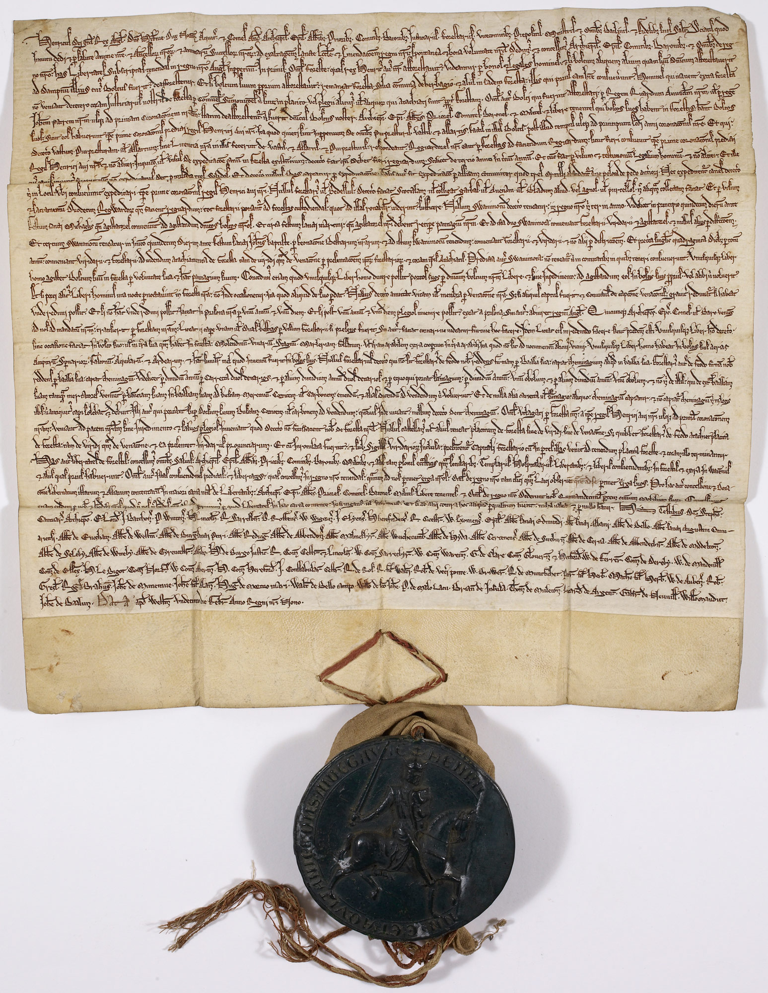 Additional Charter 24712. Released under British Library copyright statement "Public Domain Mark 1.0" at for more details.